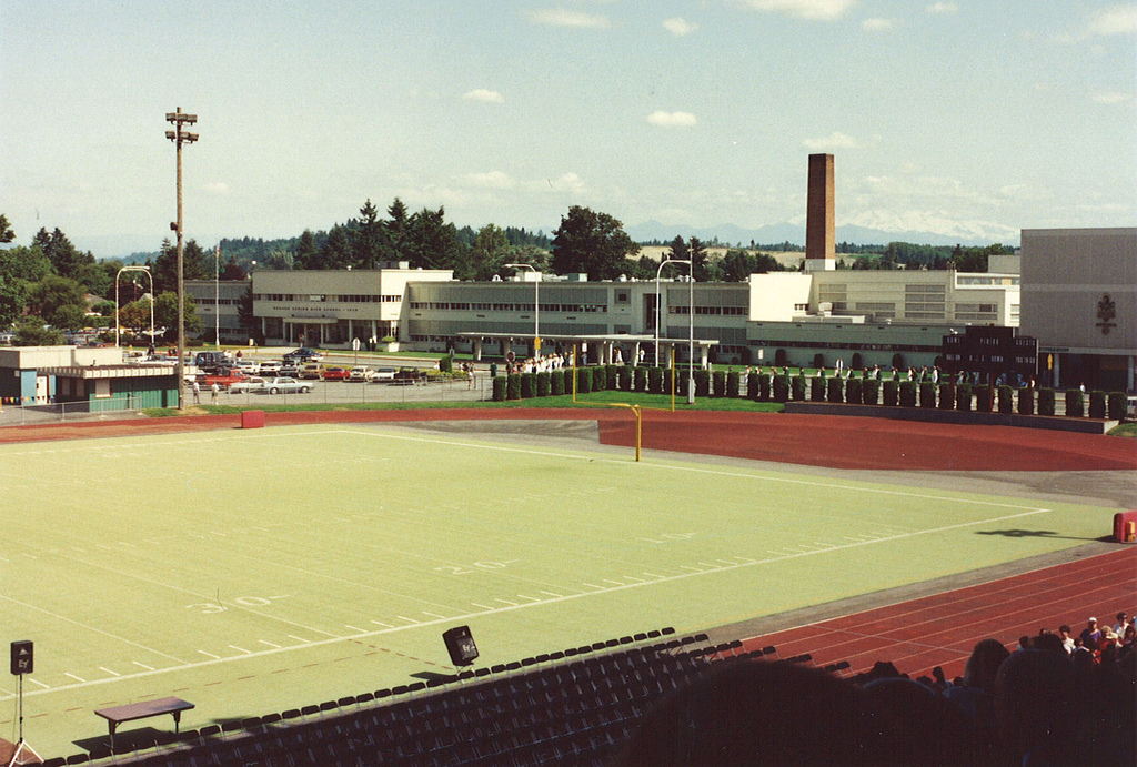 Sports field for American football and track and field at Auburn Senior High School; school building and parking lot in background